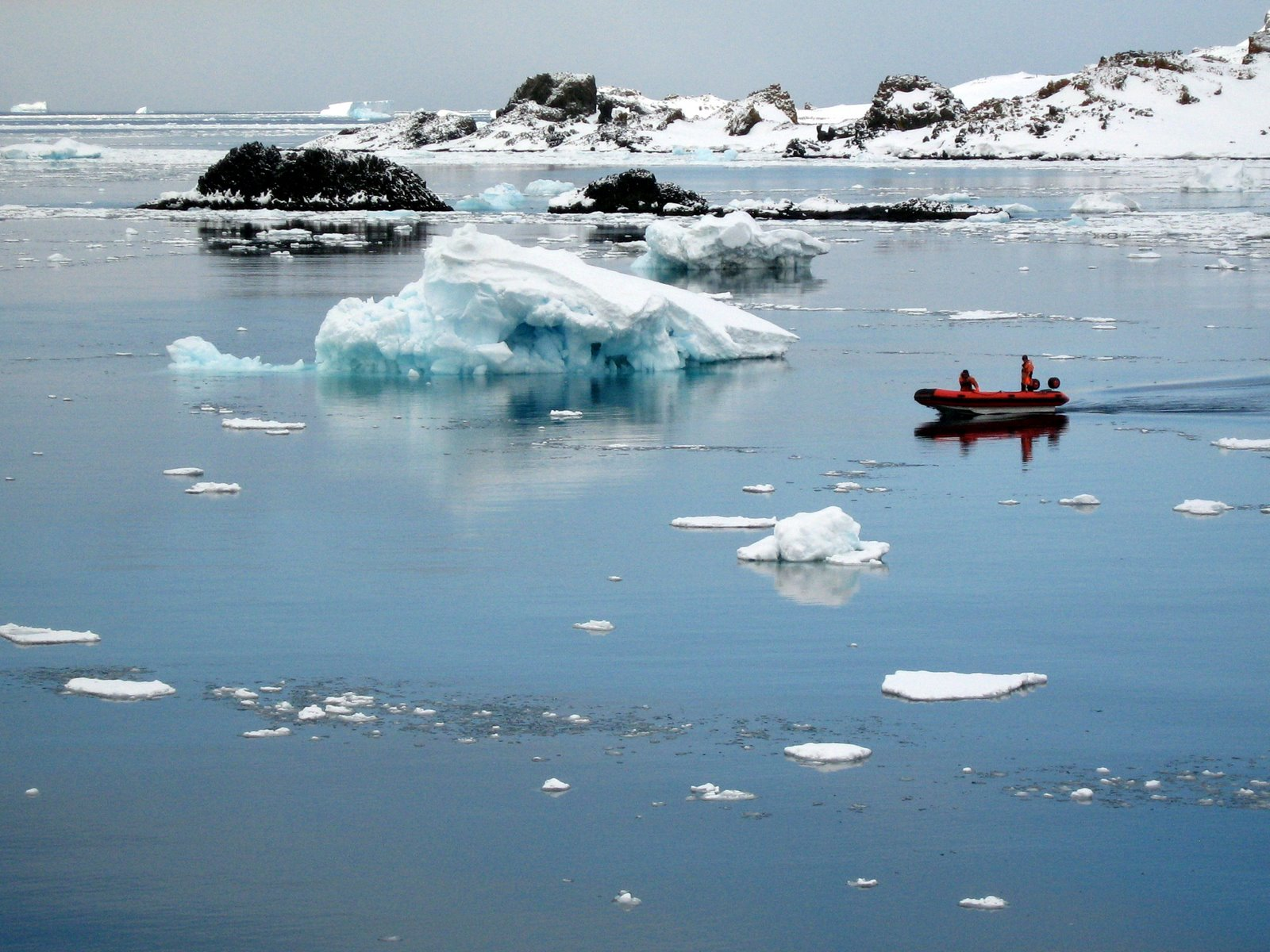 Shag Point and Rakusa Point, King George Island